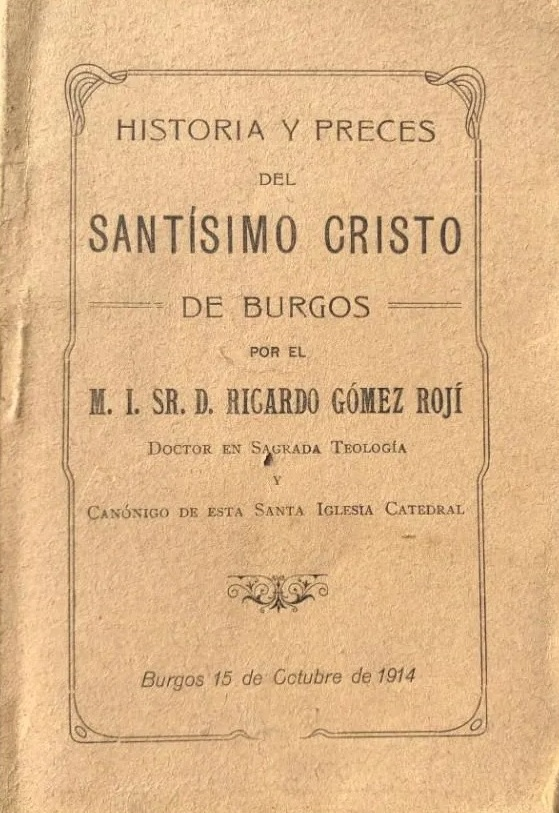 cover of Historia y preces del Santisimo Cristo de Burgos by Ricardo Gomez Roji, Burgos 1914